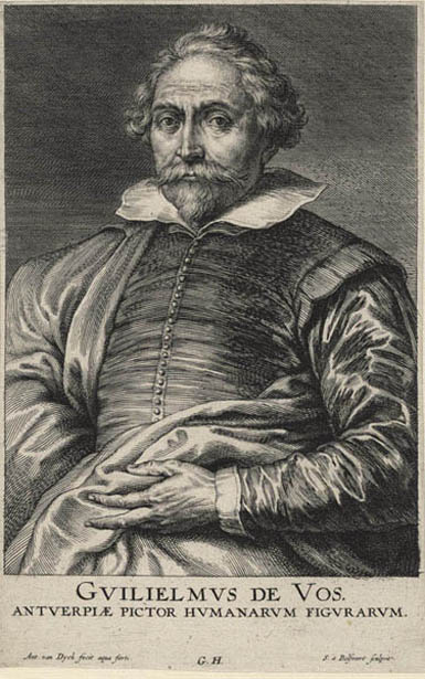 Willem de Vos (1593-1629); Etching by Anthony Van Dyck, fifth state (of seven) printed from the copperplate after Hendricx's edition in 1645. Fitzwilliam Museum, Cambridge, U.K.